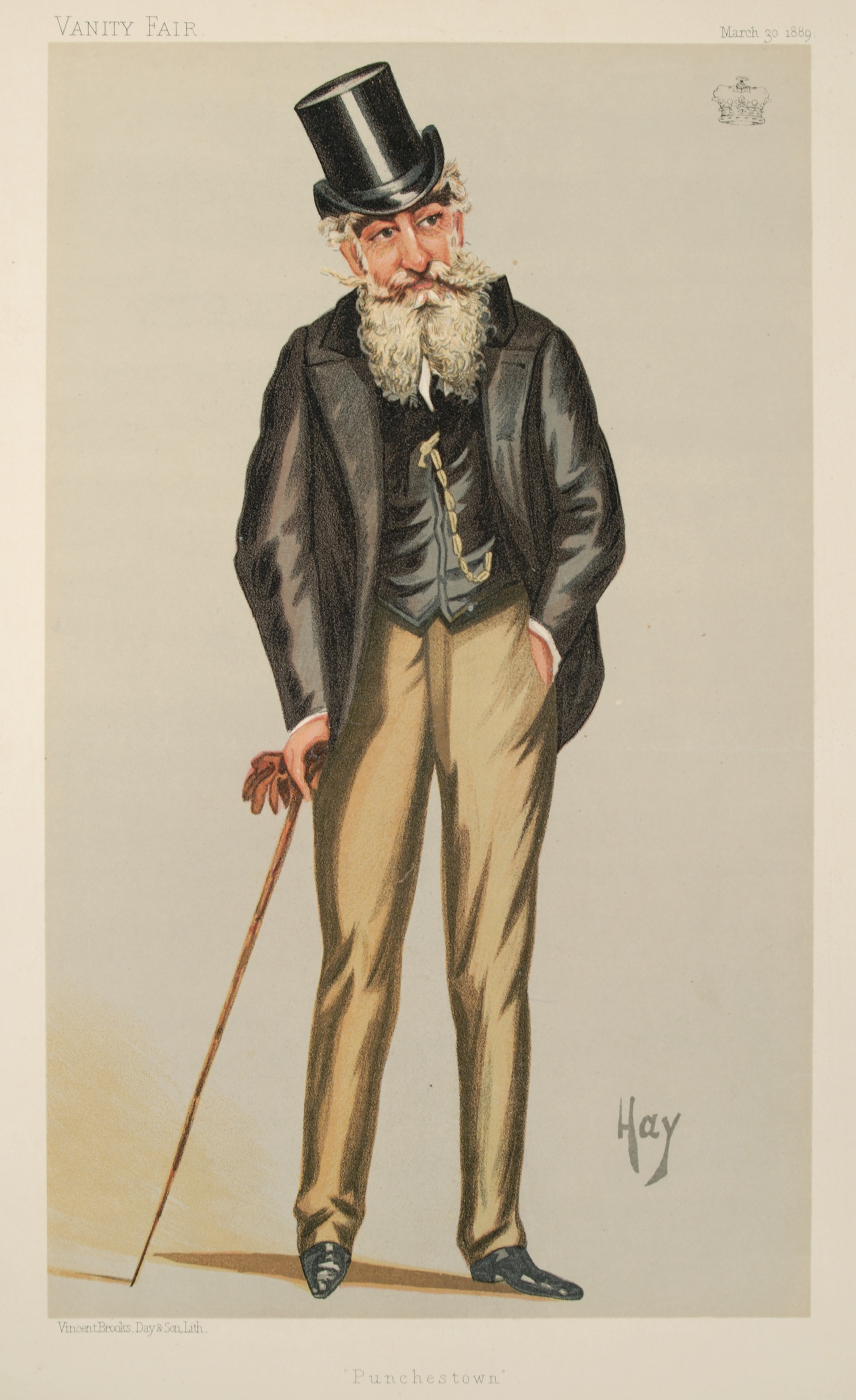 Statesmen No. 564: Caricature of Henry Moore, 3rd Marquess of Drogheda. Caption read "Punchestown".